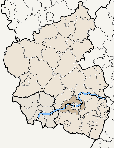 saar-pfalz-rhein-kanals project